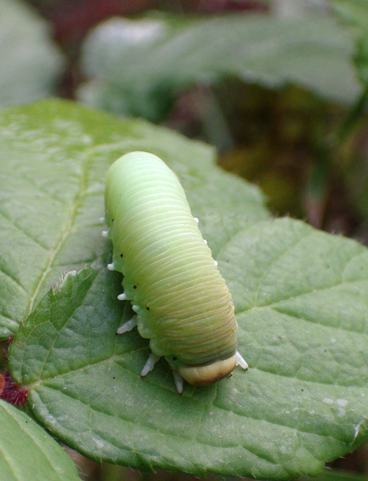 Description: Order = Hymenoptera, Family = Cimbicidae, Genus = Cimbex, Species = sp. Capture date: 2004-09-20 Photographer: stAn